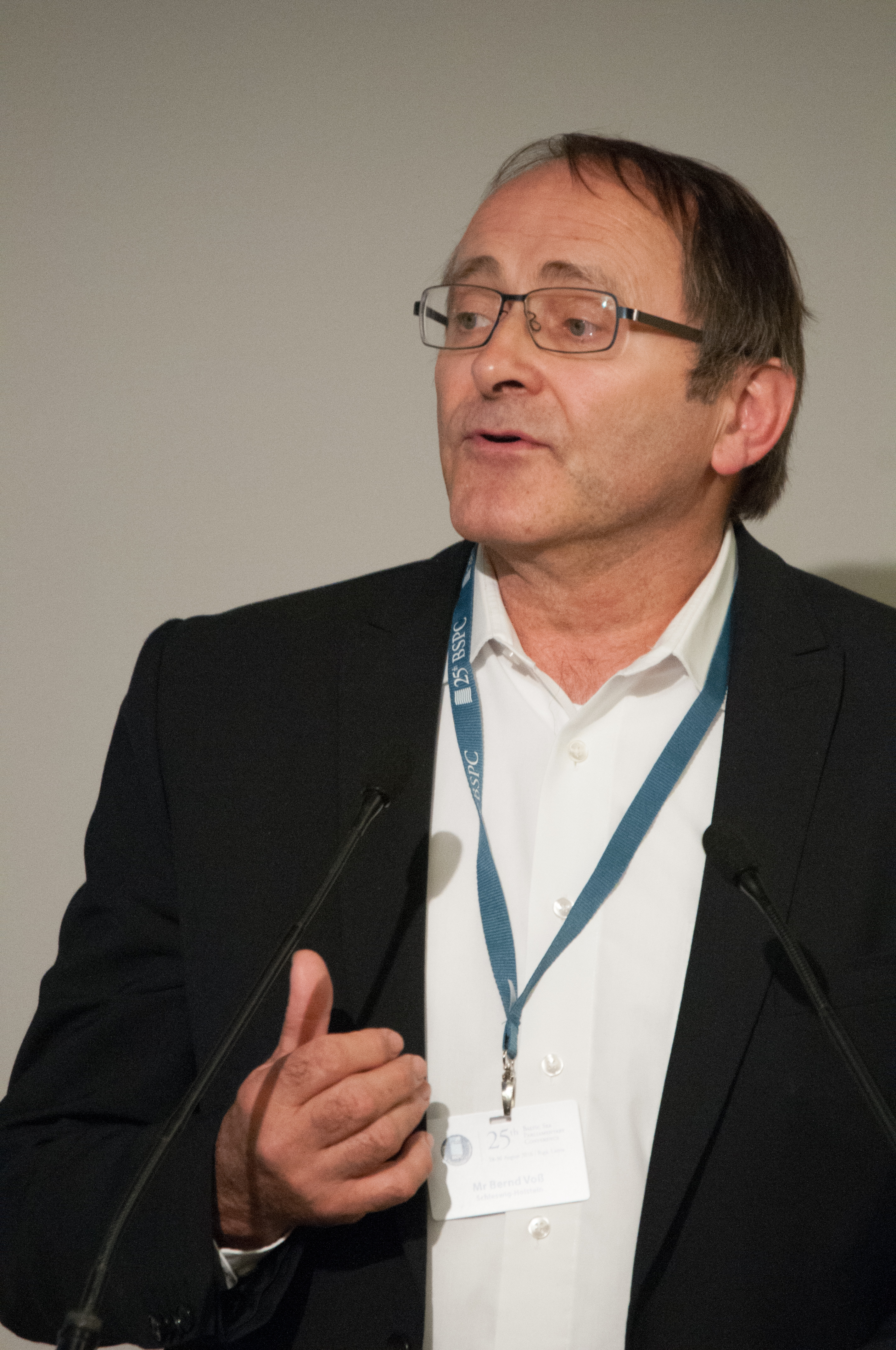 25. Baltic Sea Parliamentary Conference vom 28.-30. August 2016 in Riga. Second Session: Bernd Voß, Member of the State Parliament of Schleswig-Holstein